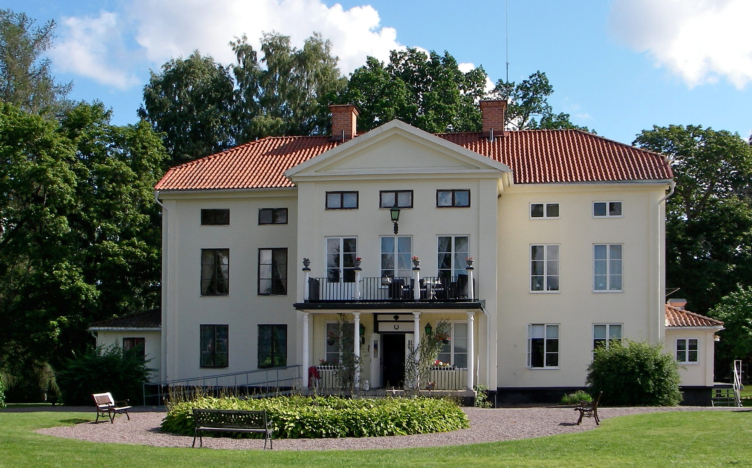 Rankhyttan Mansion in Rankhyttan, Dalecarlia.